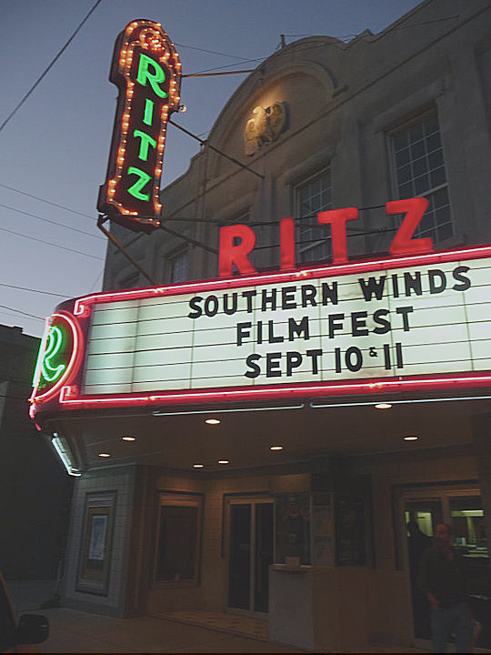 The Ritz Theater cinema marquee at dusk — in Shawnee, Oklahoma.